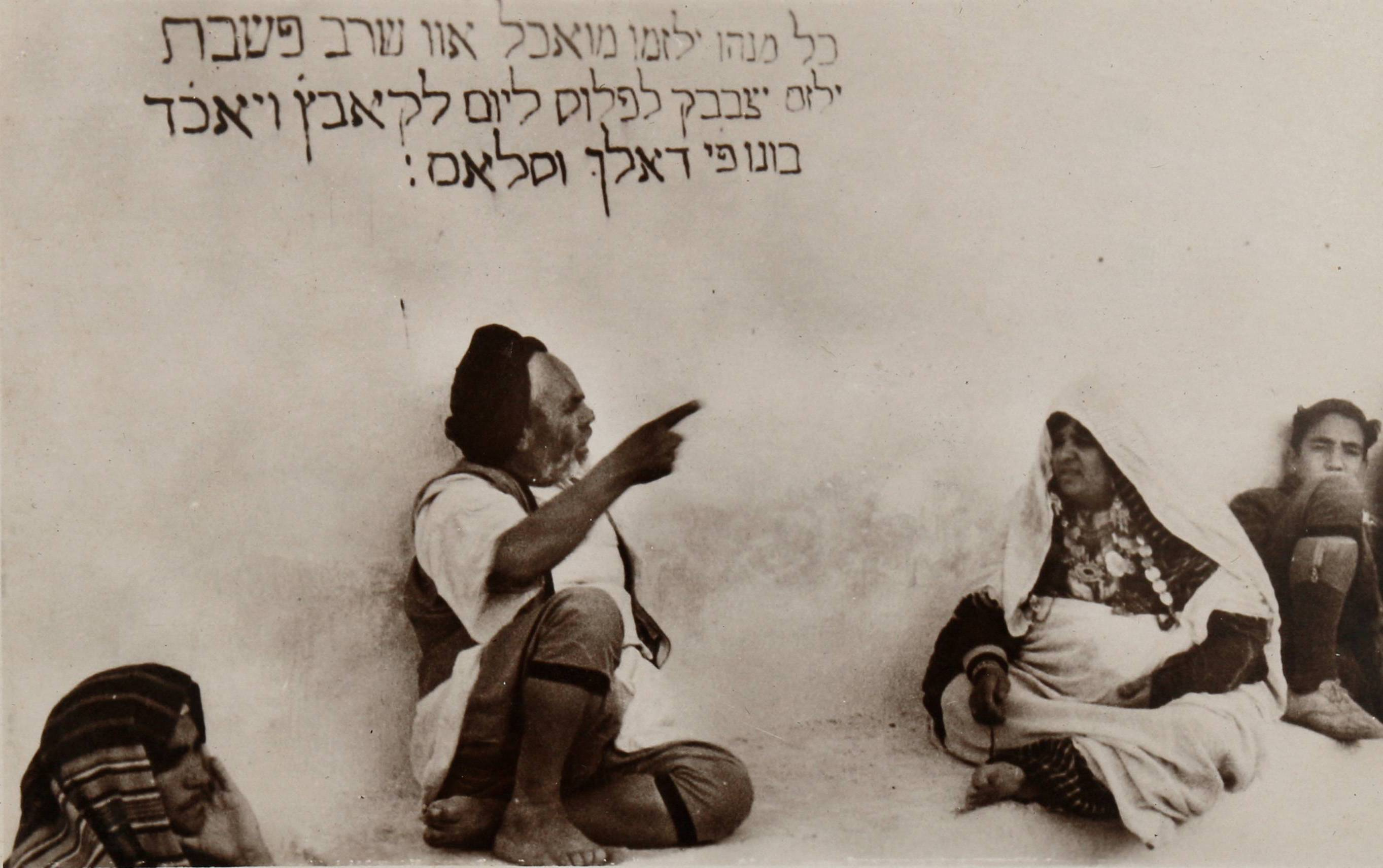 Postcard depicting Jews of Algeria near writing on wall in Hebrew script. Possibly Judeo Arabic